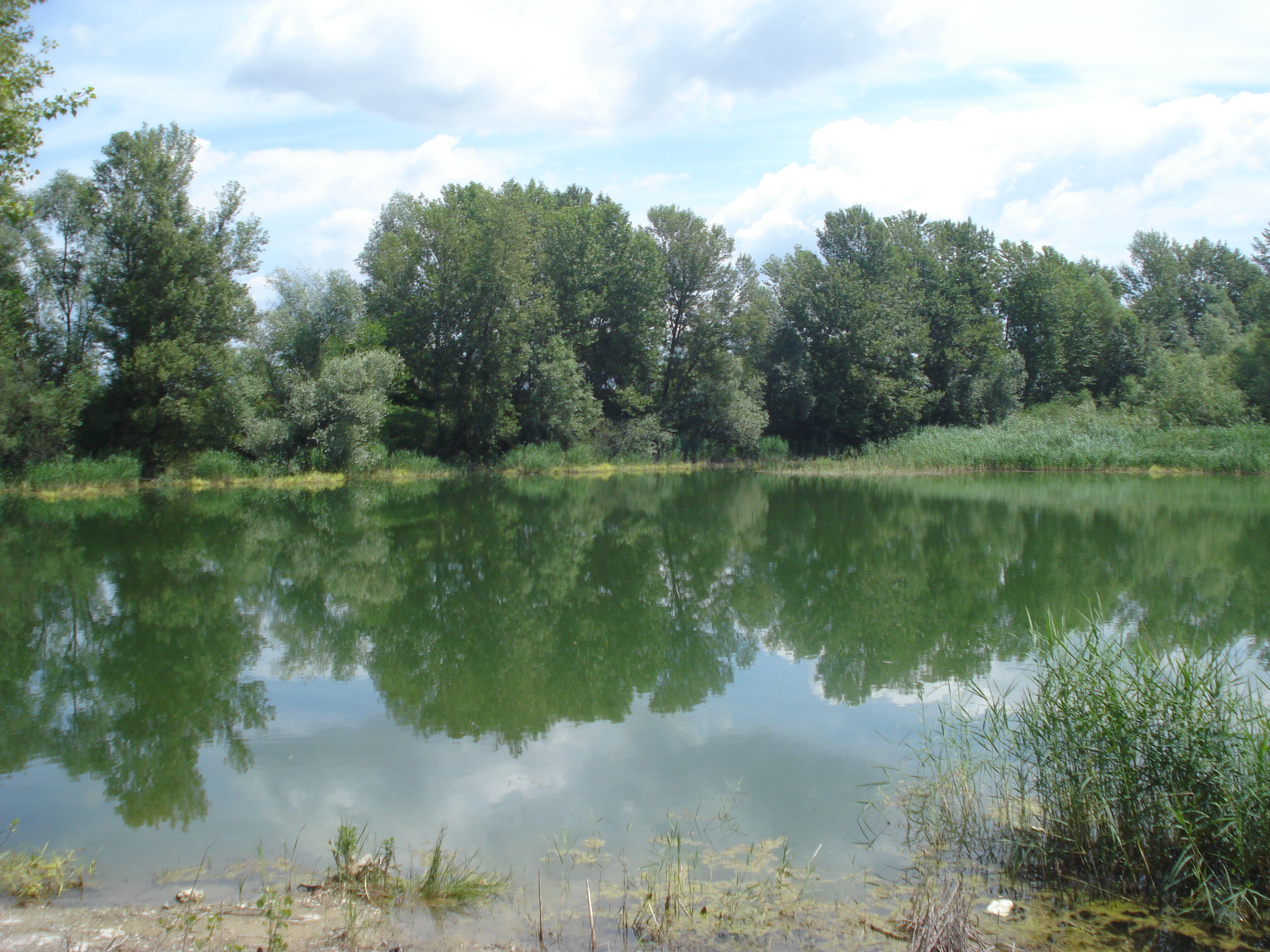 Gravel pit lake next to gravel plant for sand and gravel extraction in Ivanovec, Medjimurje County, Croatia - south side